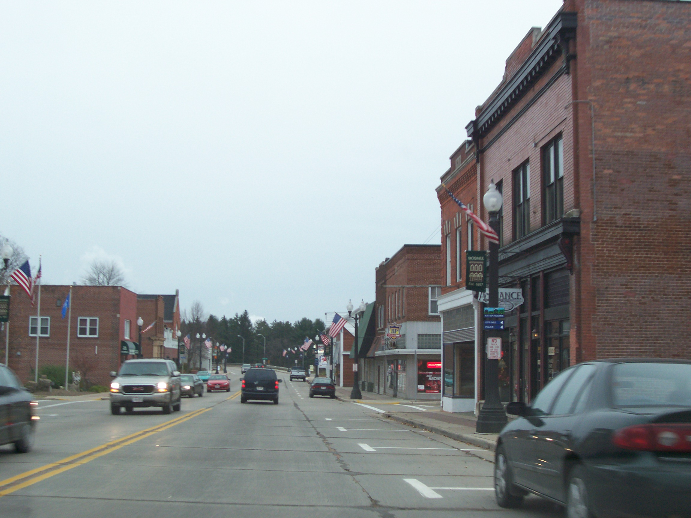 Looking east at downtown Mosinee, Wisconsin, USA on Wisconsin Highway 153.